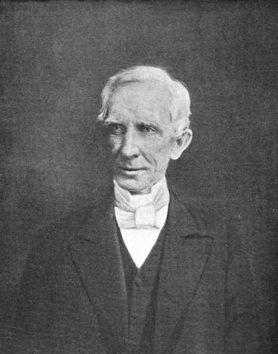 Portrait of University of Tennessee president Thomas William Humes (1815–1892), painted by Knoxville artist Lloyd Branson. This is a black and white reproduction of a color painting. For information on the original, see the painting's entry at Tennessee Portrait Project.